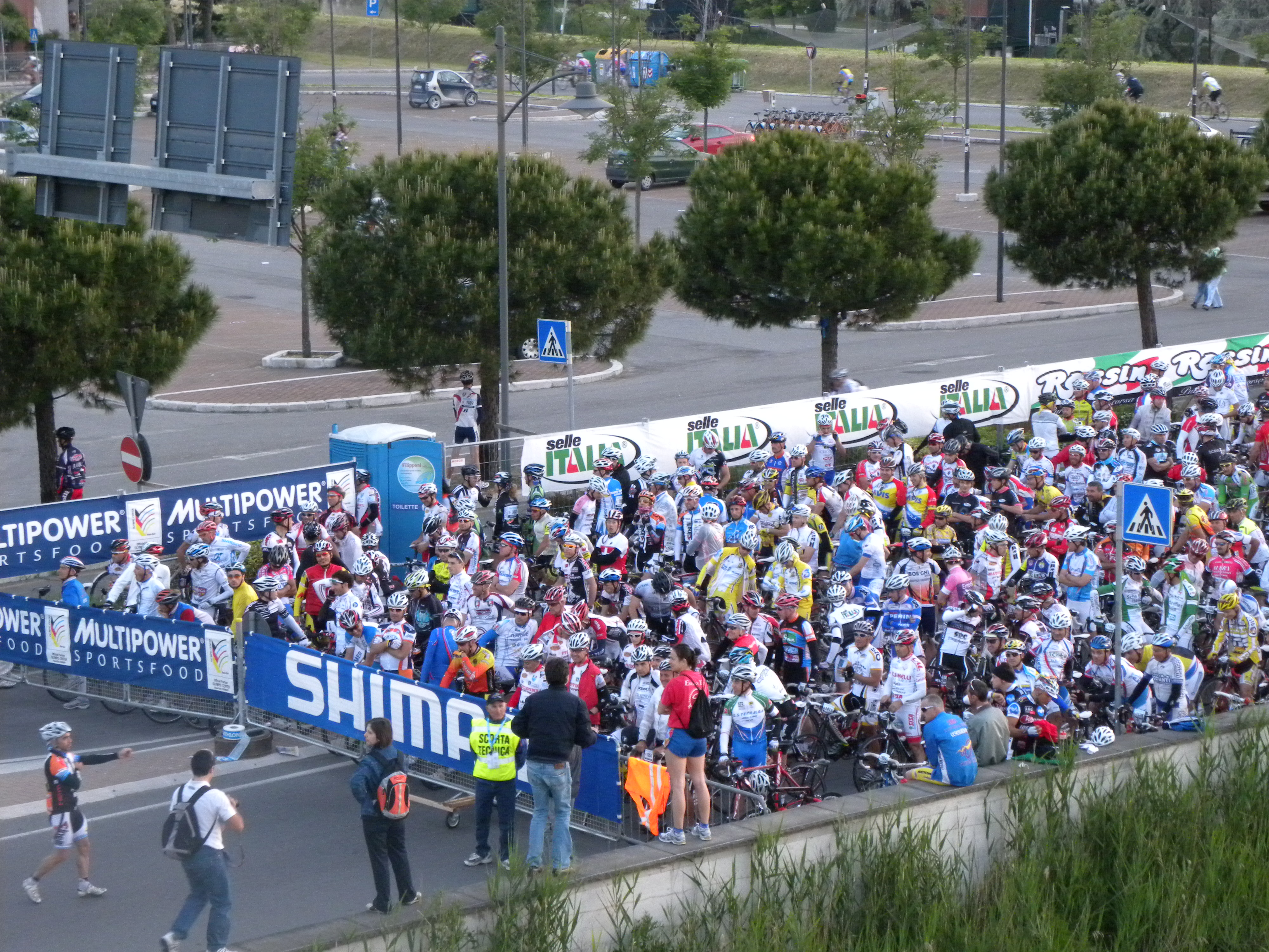 The start of the Nove Colli bicycle race 2010